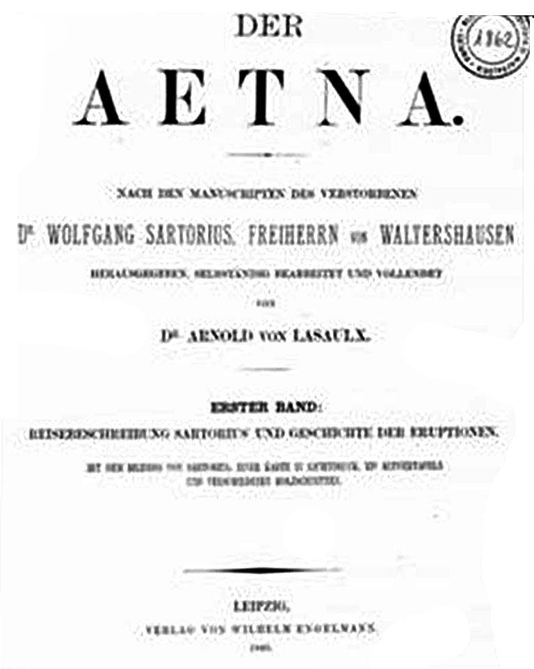 Frontpage of Der Aetna nach den Manuscripten des Verstorbenen Dr. Wolfgang Sartorius, Freiherrn von Waltershausen / herausgegeben, selbständig bearbeitet und vollendet von Dr. Arnold von Lasaulx. Erster Band. Leipzig, Verlag von Wilhelm Engelmann, 1880.